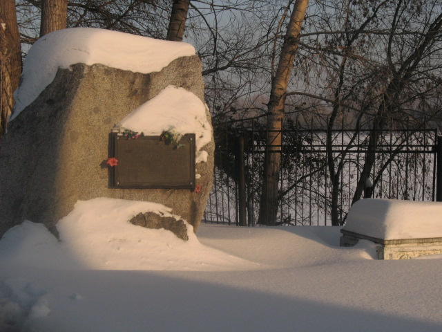 Memorial site at the place where many prisoners were murdered during stalinism in Biysk, Altai Krai, Russia